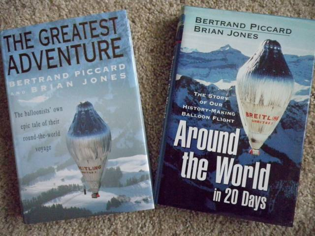 Cover of “The Greatest Adventure” (Headline, London) 1999 ISBN 0-7472-7128-3 and “Around the world in 20 Days” (same content published by Wiley, New York) 1999 ISBN 0-471-37820-8